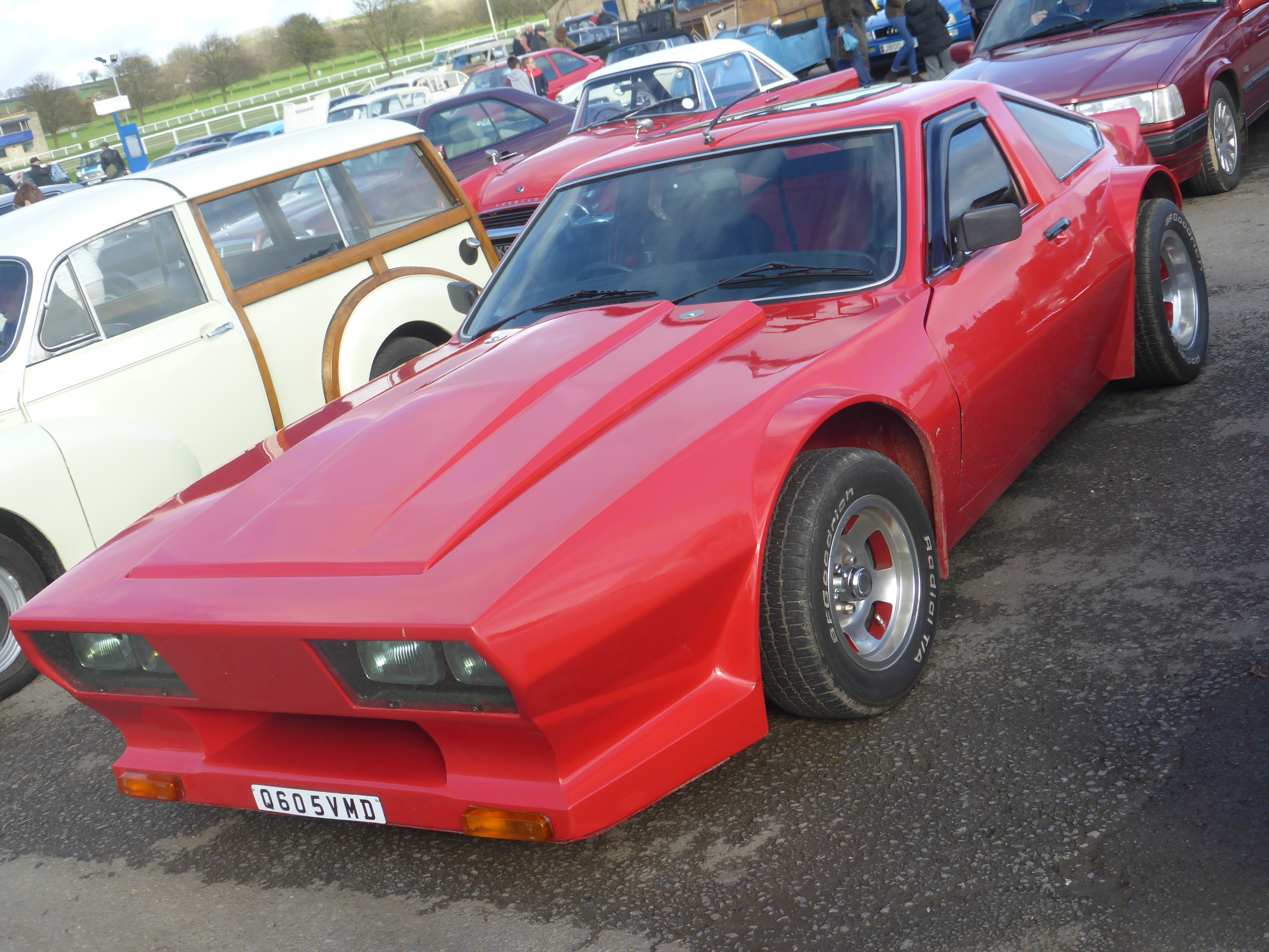 One of only 17.... Footman James Classic Vehicle Restoration Show, Bath & West Showground, near Shepton Mallet